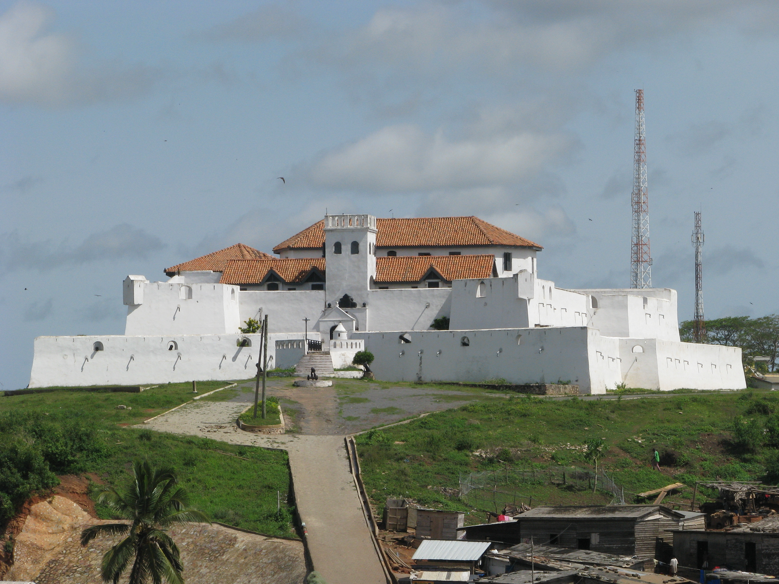 St Jago fort in Elmina Ghana. Picture taken from Elmina Castle.